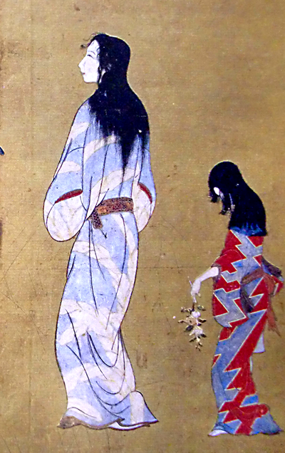 Genre scene (紙本金地著色風俗図, shihonkinjichoshoku fūzokuzu) or Hikone Screen (彦根屏風, hikone byōbu). Six-section folding screen (byōbu), 94.5 cm x 278.8 cm. Color on paper with gold leaf background. Formerly held by the Ii family. Located at the Hikone Castle Museum, Hikone, Shiga, Japan. The screen has been designated as National Treasure of Japan in the category paintings.